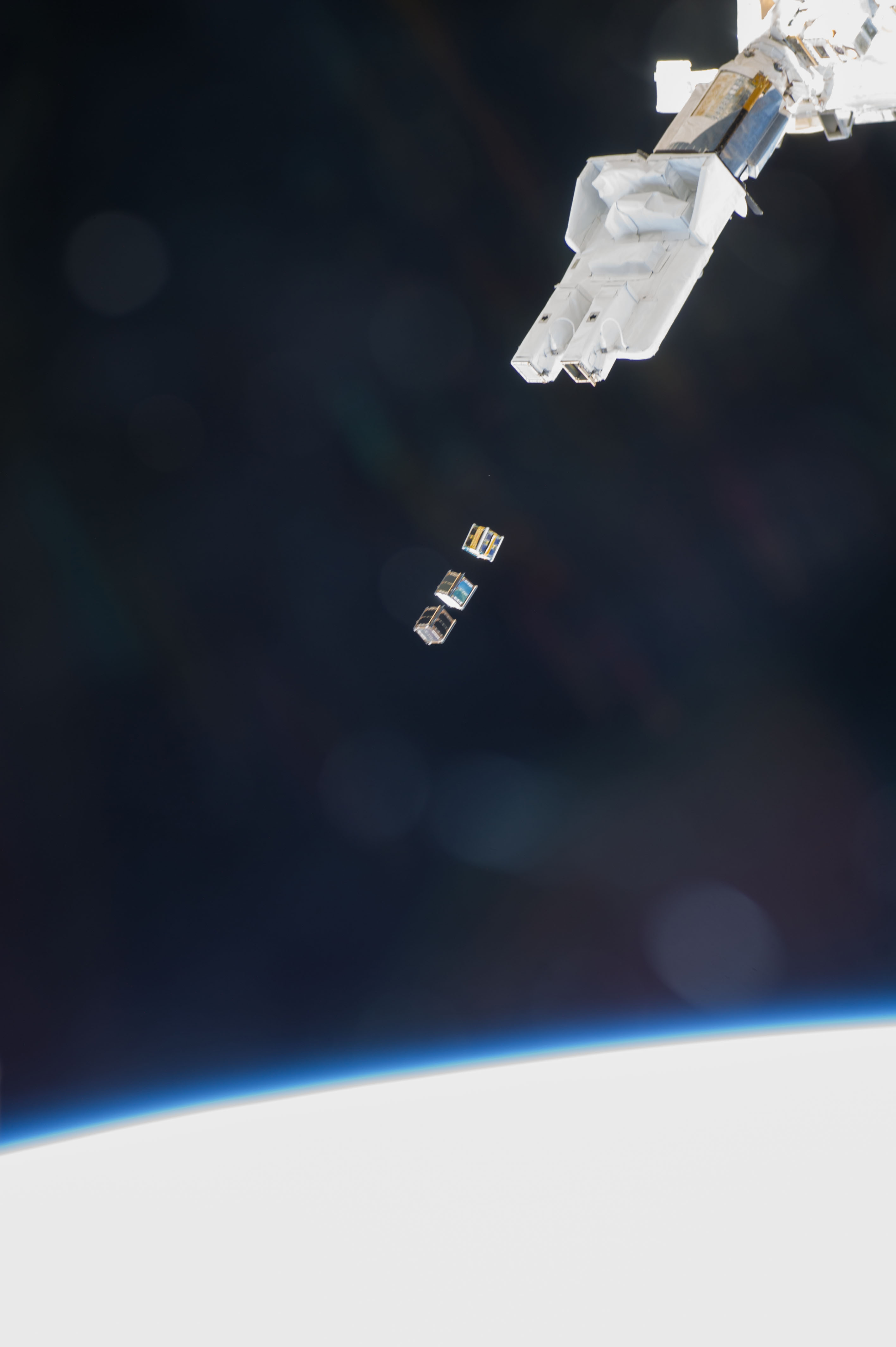 Three nanosatellites, known as Cubesats, are deployed from a Small Satellite Orbital Deployer (SSOD) attached to the Kibo laboratory's robotic arm at 7:10 a.m. (EST) on Nov. 19, 2013. Japan Aerospace Exploration Agency astronaut Koichi Wakata, Expedition 38 flight engineer, monitored the satellite deployment while operating the Japanese robotic arm from inside Kibo. The Cubesats were delivered to the International Space Station Aug. 9, aboard Japan's fourth H-II Transfer Vehicle, Kounotori-4.